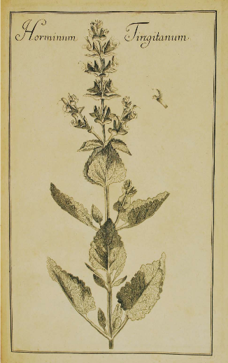 An illustration by Rivinus titled "Horminum tingitanum", referred to by Etlinger (1777) in the original description of Salvia tingitana. The first known illustration is Apolino's "Marum aegyptium" (1640).